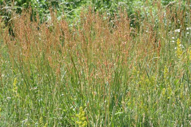 (en) Common Sorrel Rumex acetosa, a photography originating of the internet site The accord of the autor, H. Brisse, is here. (fr) Grande Oseille (Rumex acetosa), une photographie issue du site internet L'accord de l'auteur, H. Brisse, se situe ici. (it)Rómice Acetosa ; (de)Wiesen-Sauerampfer ; (Es)Acedera común ; (Nl)Veldzuring